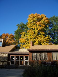 This is the Interpretive Center on Hartman Reserve Nature Center